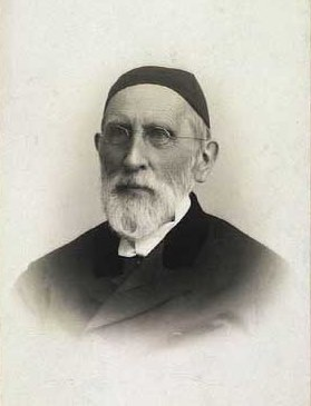 Christen Dalsgaard (1824-1907), Danish painter